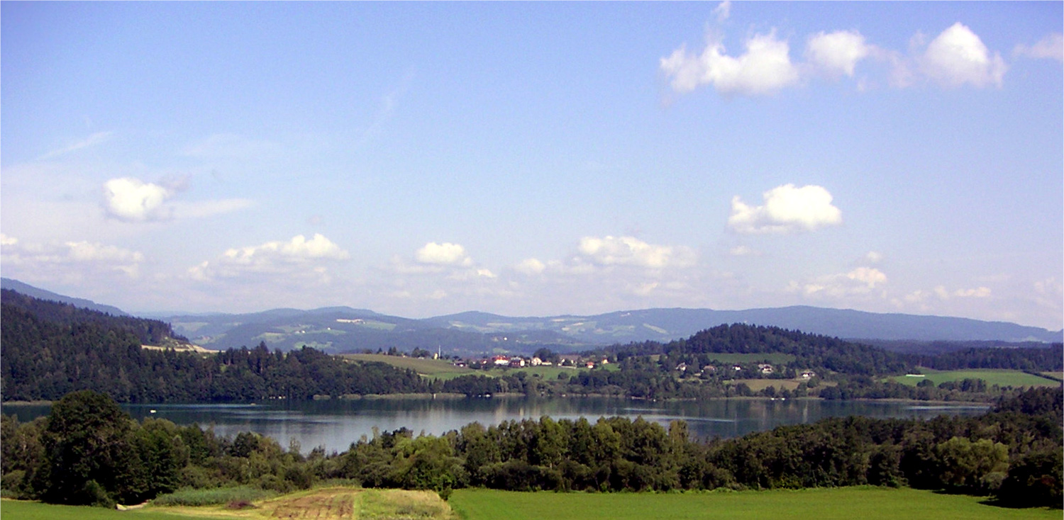 Längsee in Carinthia. Photographed from Sankt Georgen.